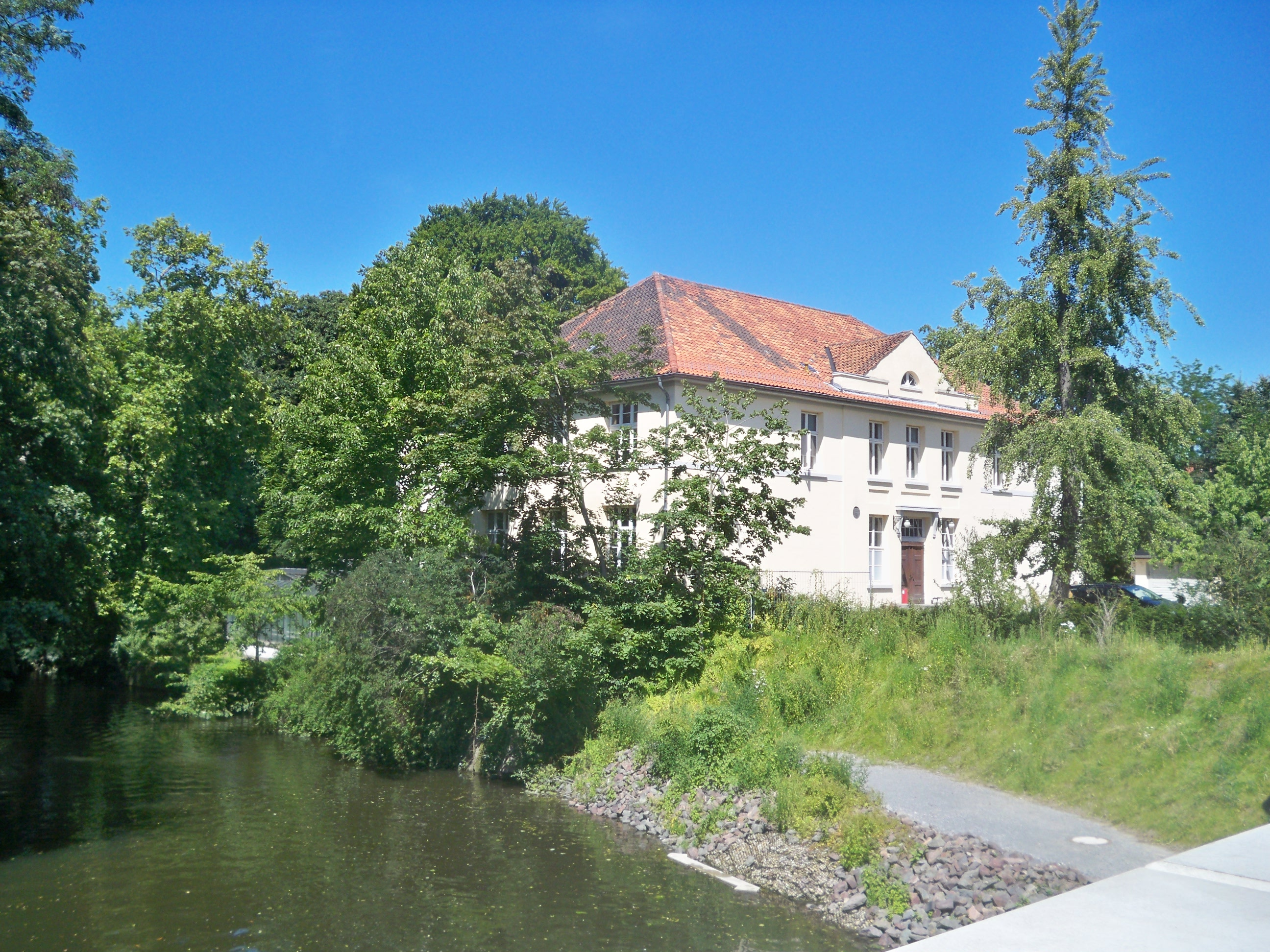 Braunschweig, Germany, botanical institute of Technische Universität Braunschweig with Oker river